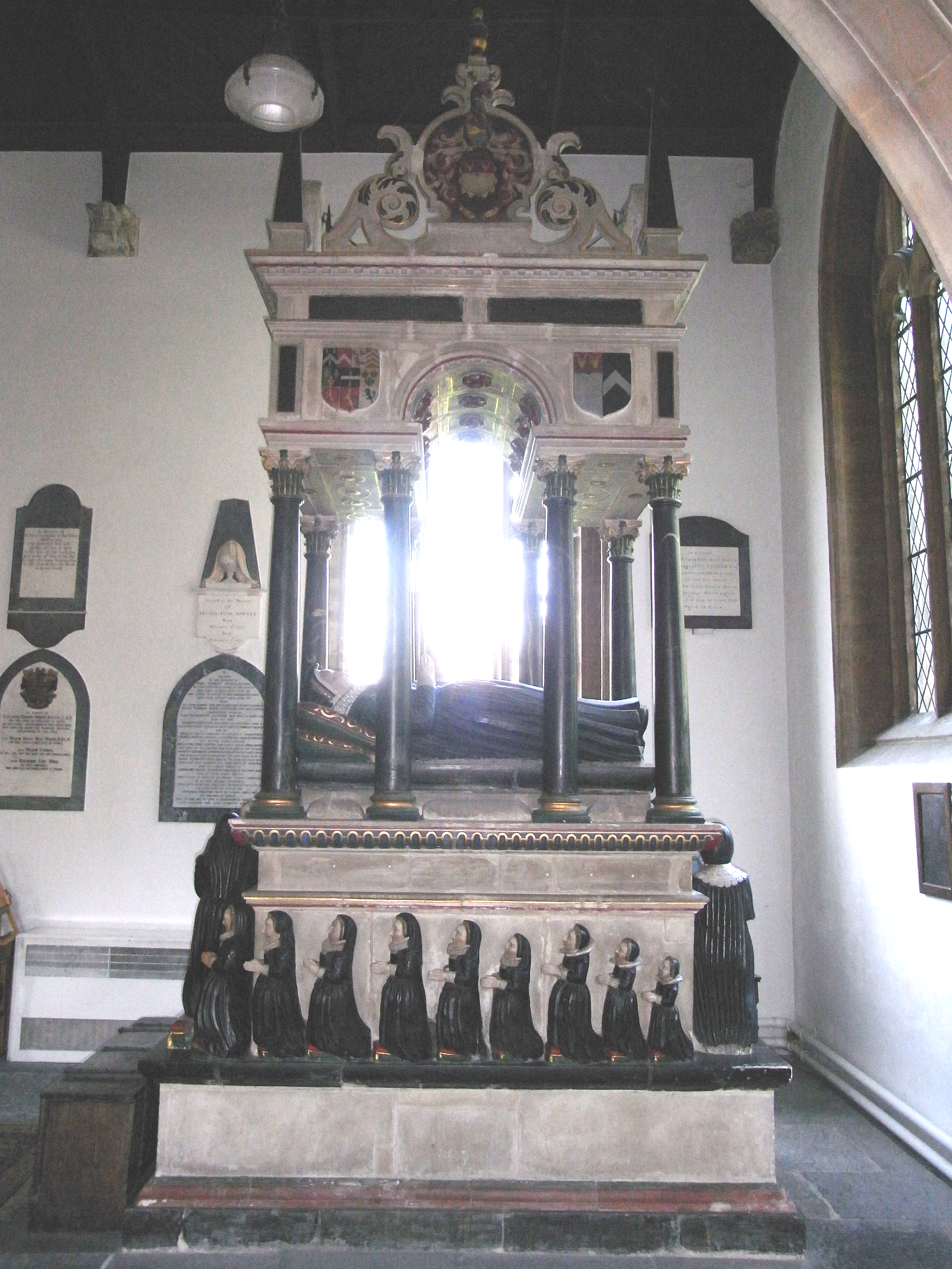 Monument in Wellington Church, Somerset, to Sir John Popham (1531-1607), Lord Chief Justice of England. East end of north aisle.